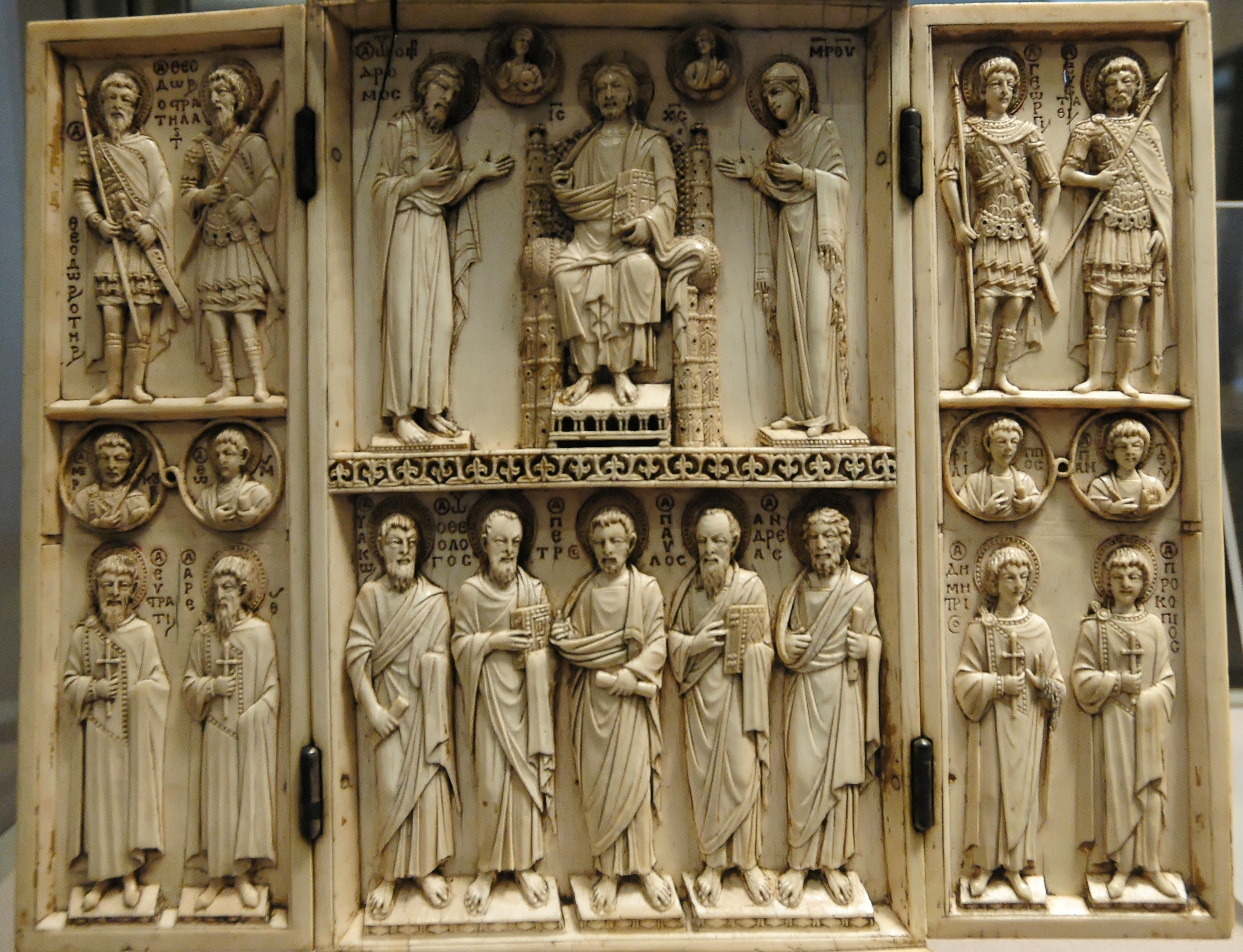 Deisis and saints, Harbaville Triptych, middle of the 10th century, ivory. Alternate views: back side of the triptych, detail of the right panel